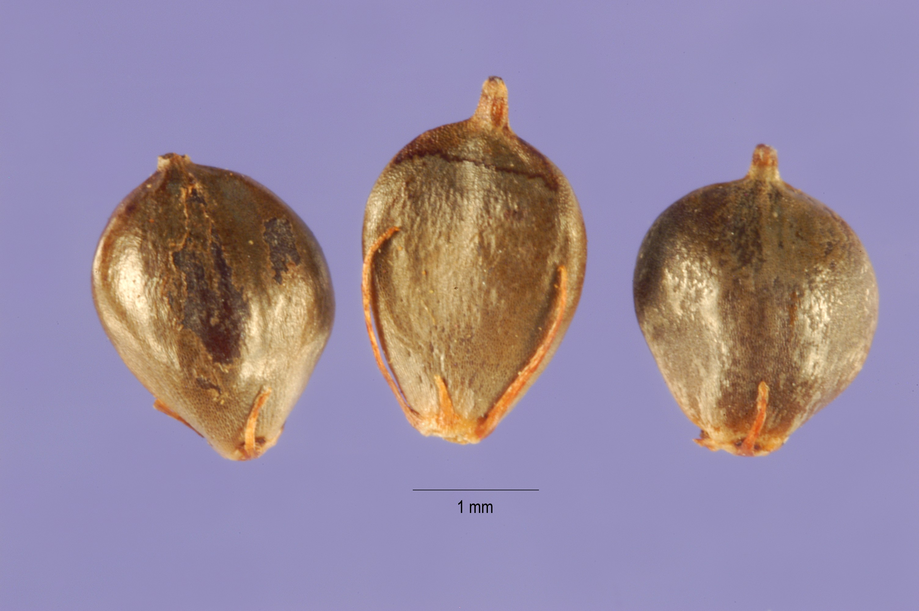 Schoenoplectus americanus seeds